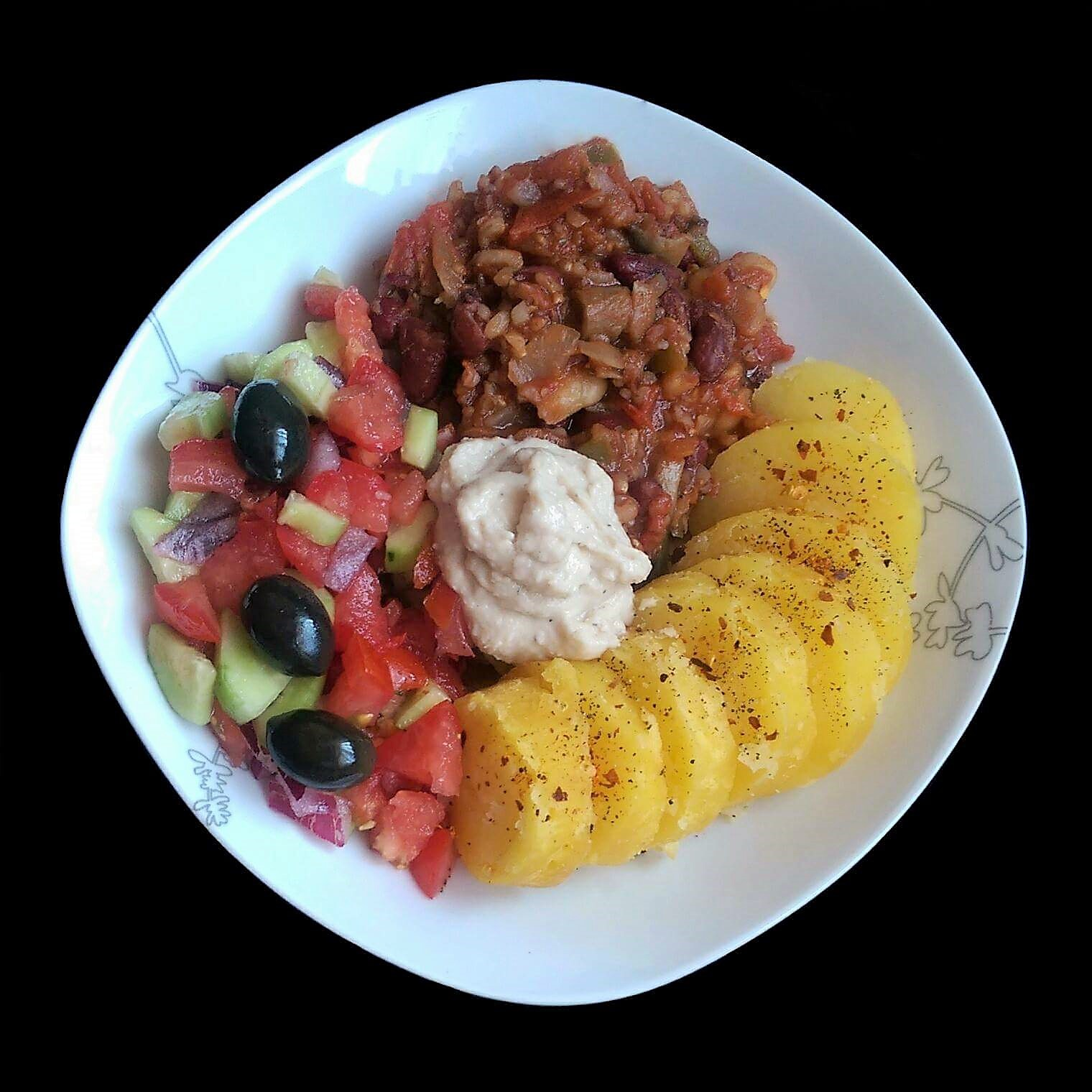 Turli tava (baked vegetables), baked potato, spread out of sunflower seeds and macedonian salad.